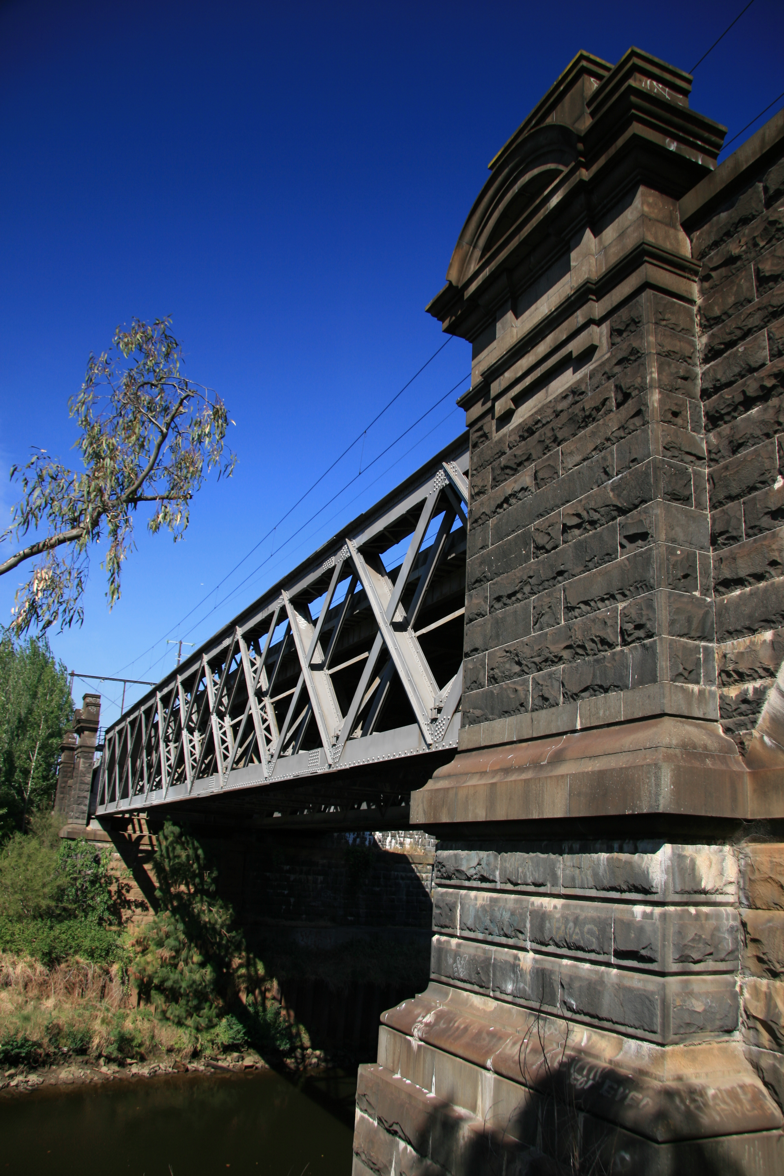 Opened in 1861 to carry rail over the Yarra River. Hawthorn Bridge